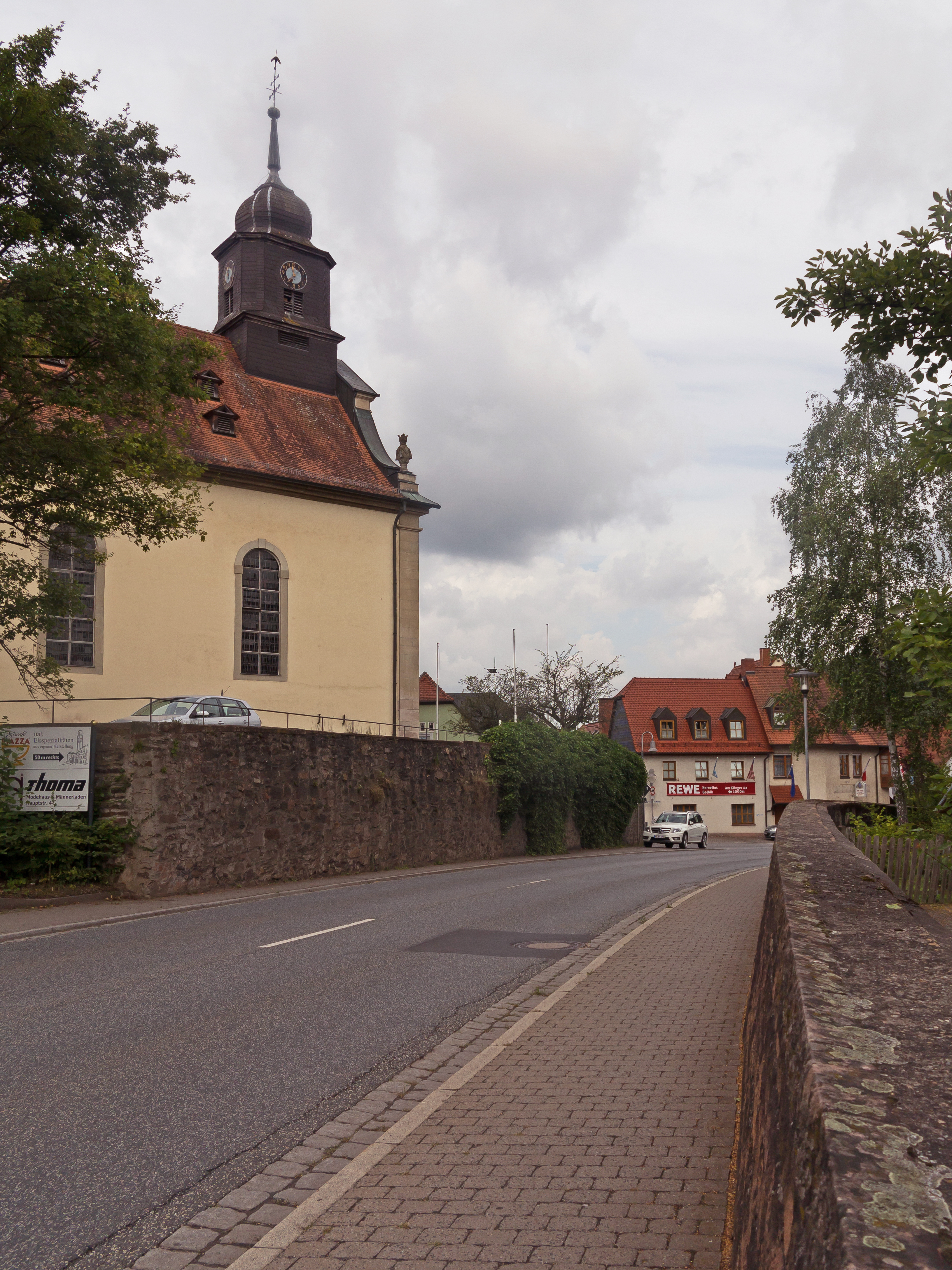 Mömbris, church (die katholische Pfarrkirche Sankt Cyriakus) in the streetThis is a photograph of an architectural monument.